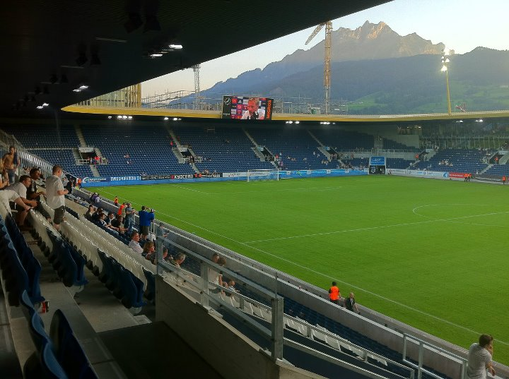 swissporarena.luzern.inside